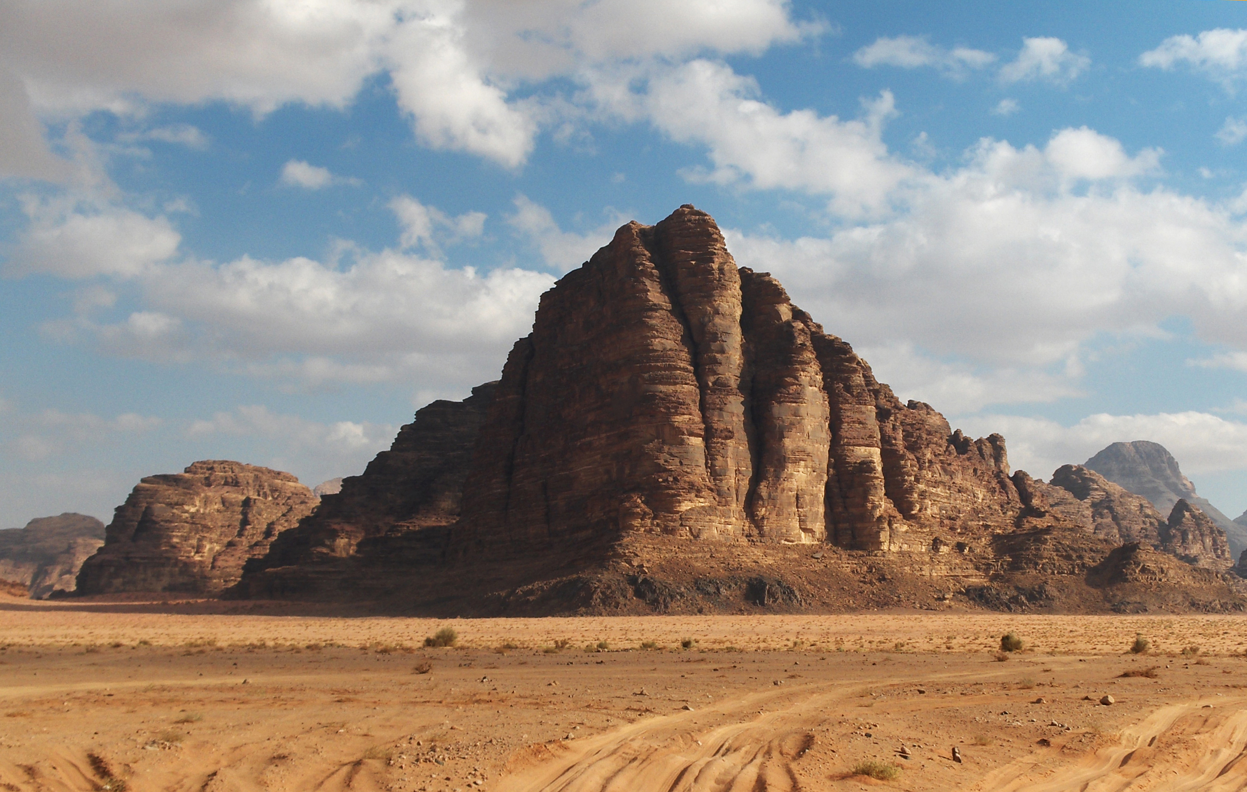 Seven Pillars of Wisdom monument in Wadi Rum, Jordan